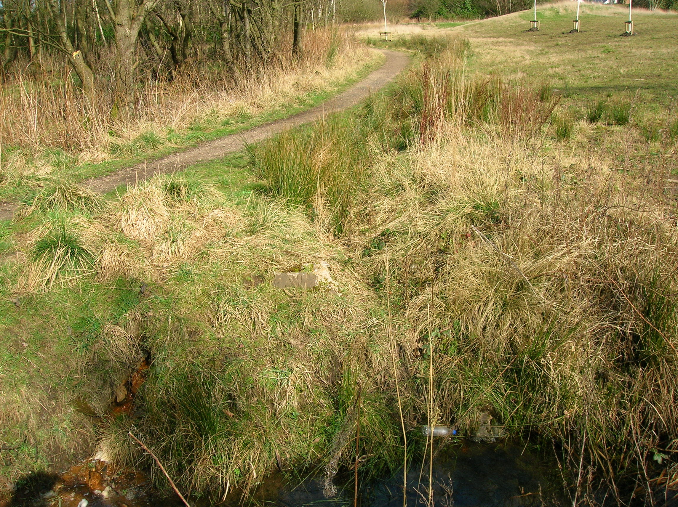 The Drukken Steps showing the abutment of the previous bridge of circa 1966and the Red Burn